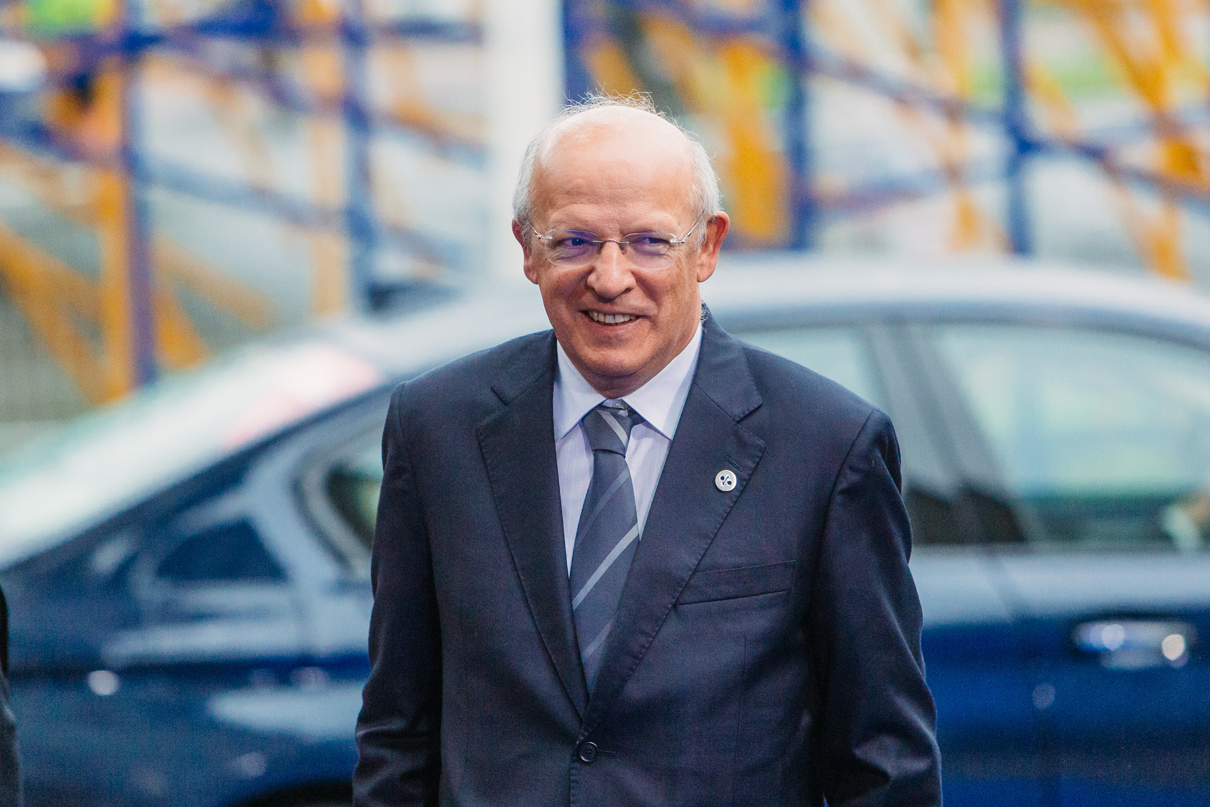 Augusto Santos Silva, Minister, Ministry of Foreign Affairs, Portugal Photo: Arno Mikkor (EU2017EE)